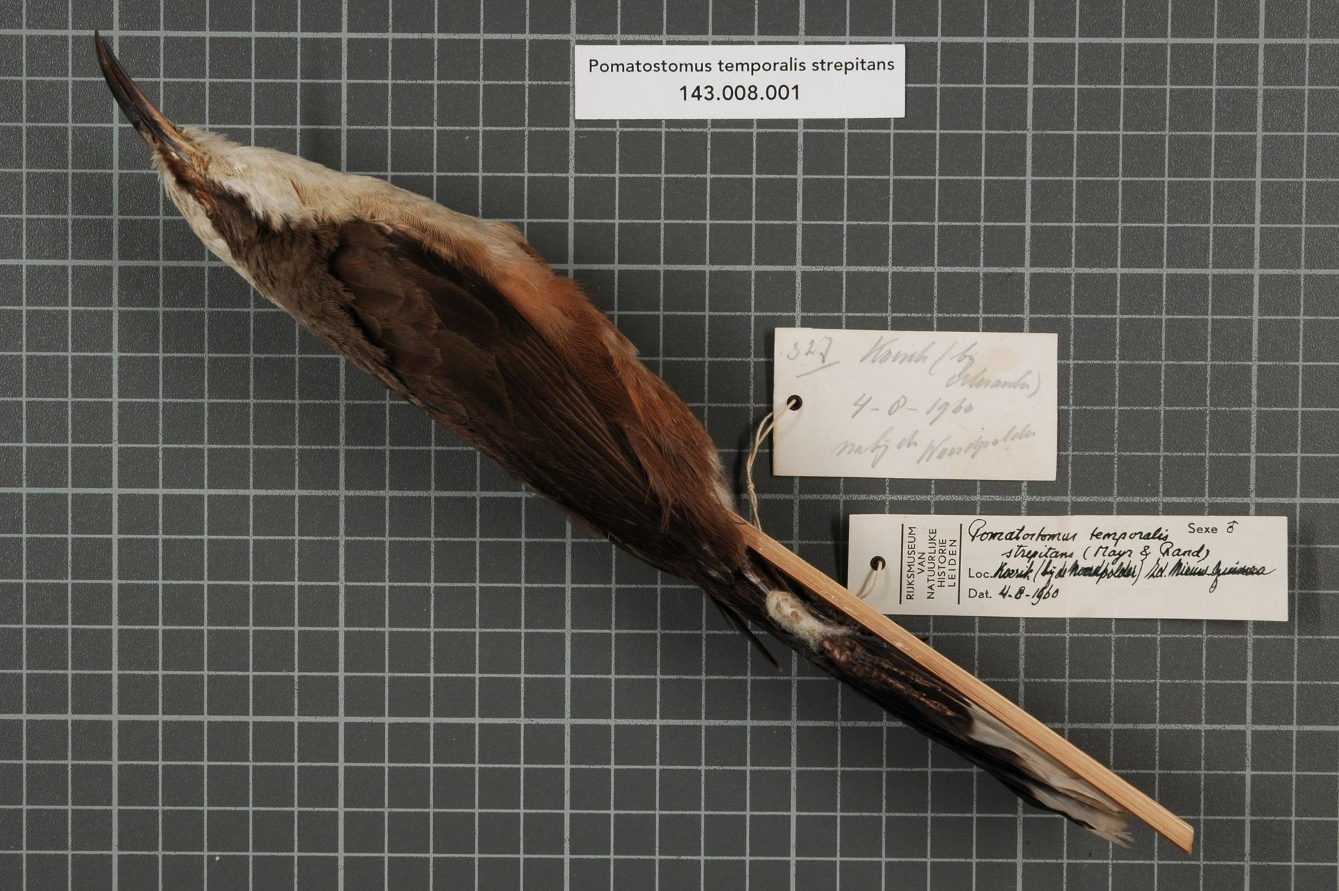 Pomatostomus temporalis strepitans (Mayr & Rand, 1935)